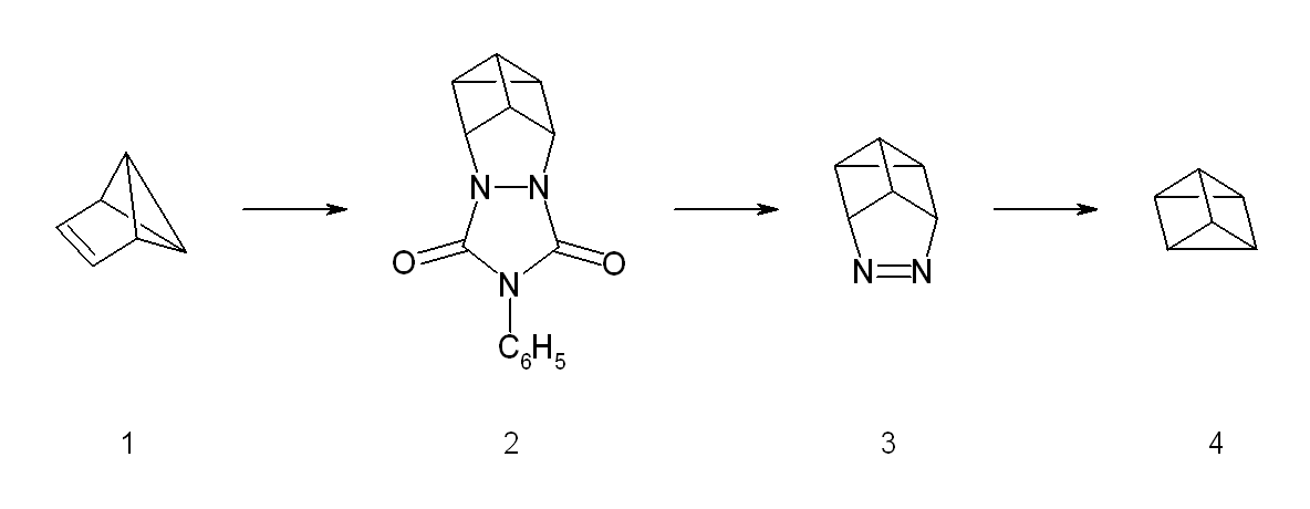 Created picture myself